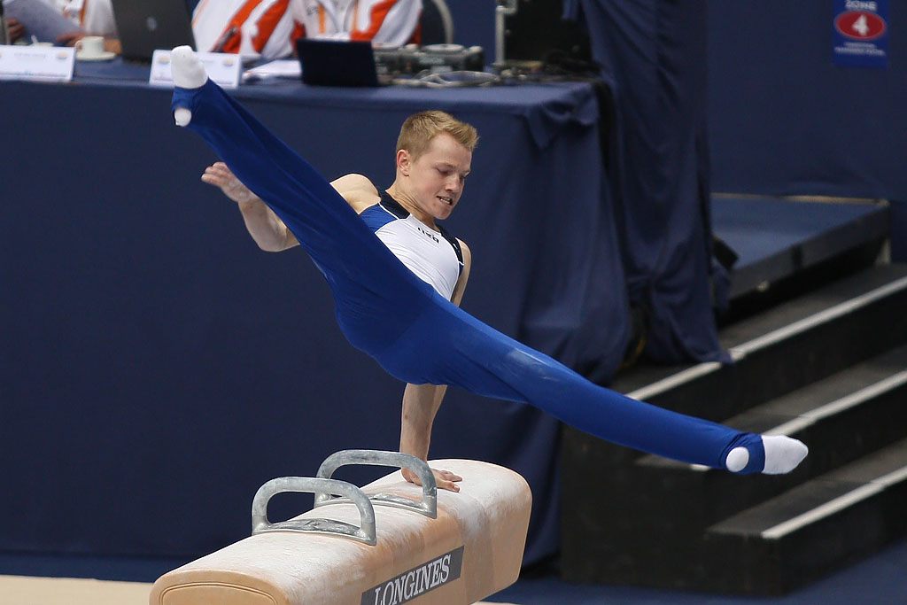 Christopher Cameron, an American artistic gymnast, performing flairs on the pommel horse in 2010.